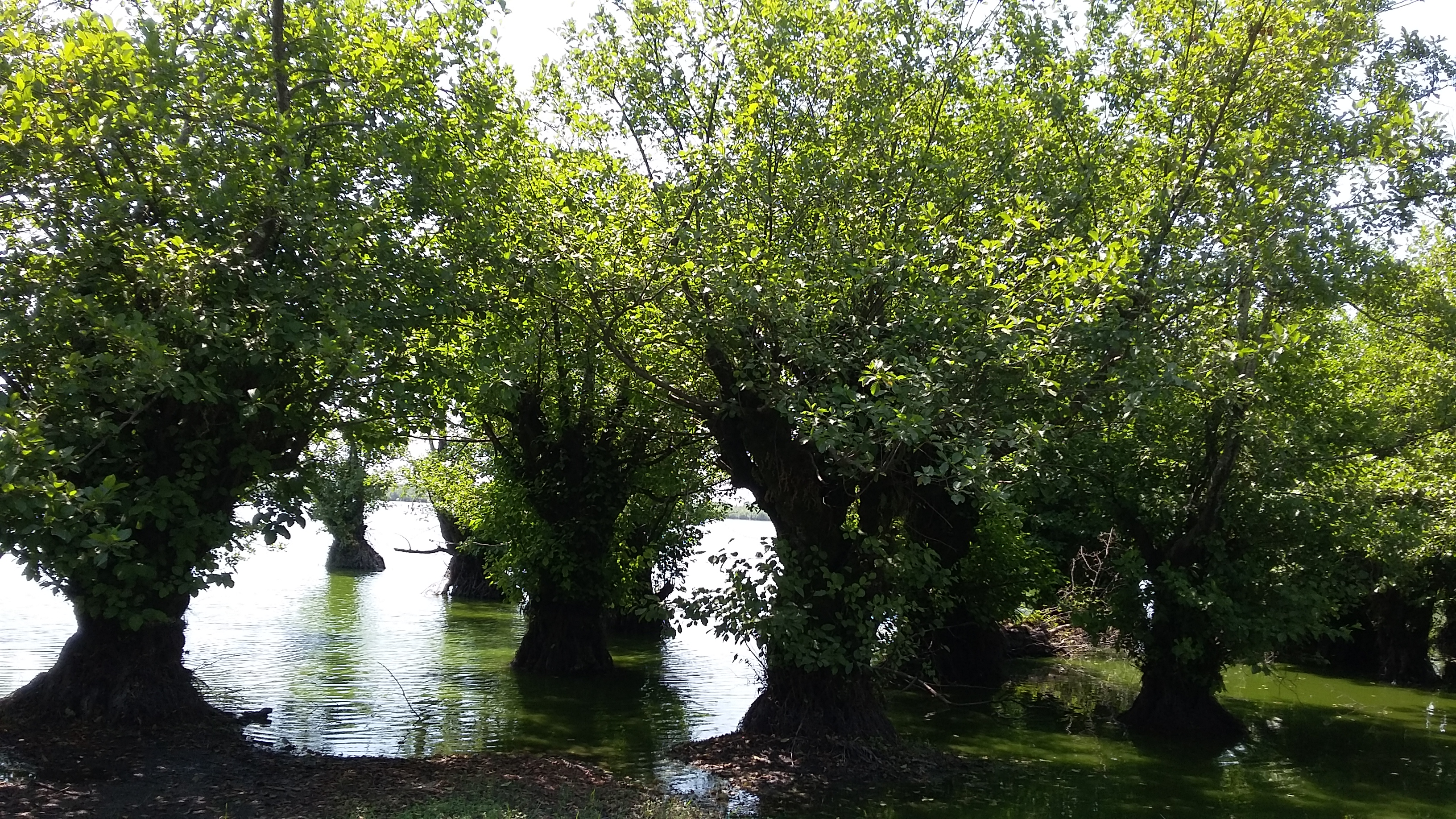 Estil Lagoon Green coatings